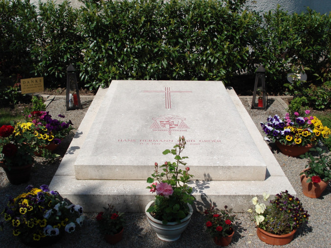 Hans Hermann Groër (1919-2003), Grab vor dem Kloster Marienfeld - sepulchre in front of the monastary Marienfeld